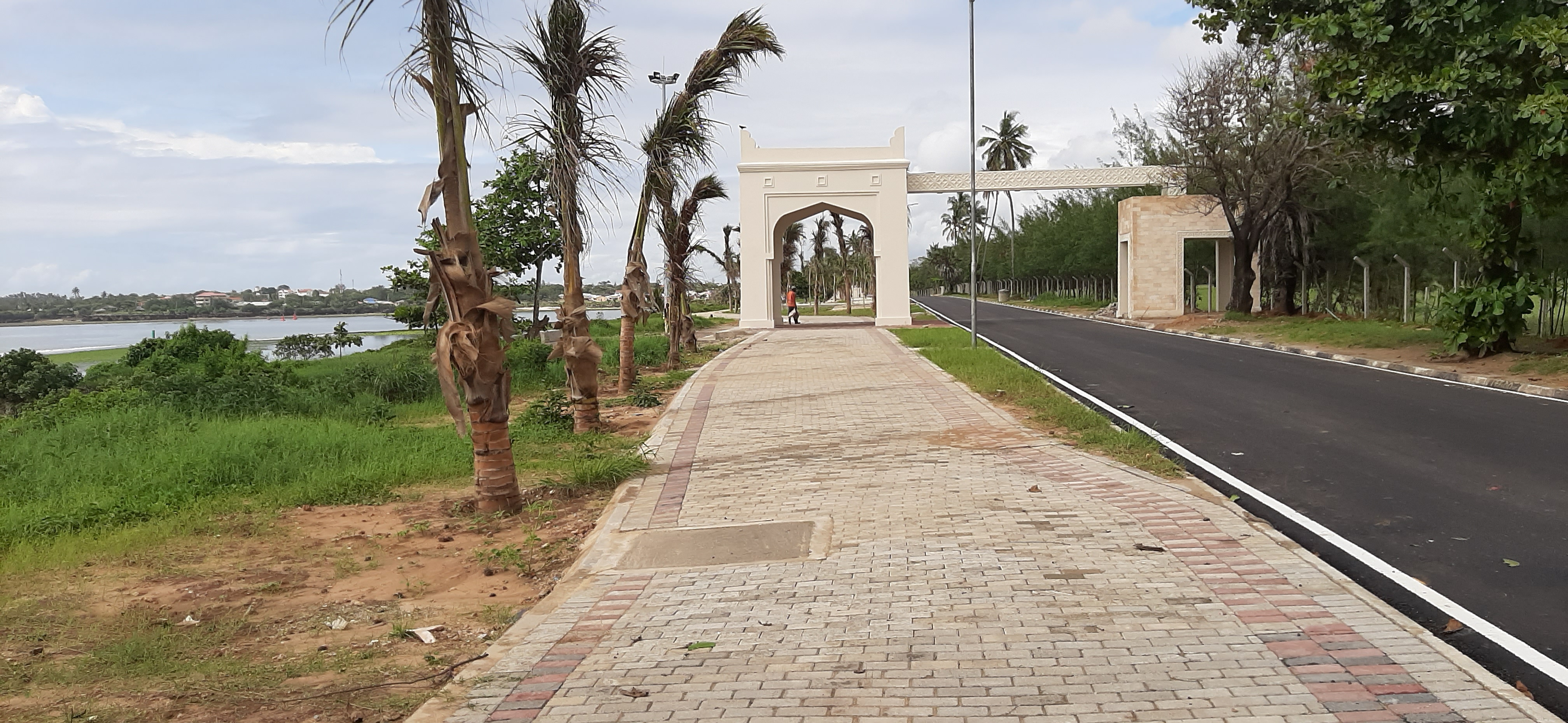 This is an image with the theme "Africa on the Move or Transport" from: Kenya